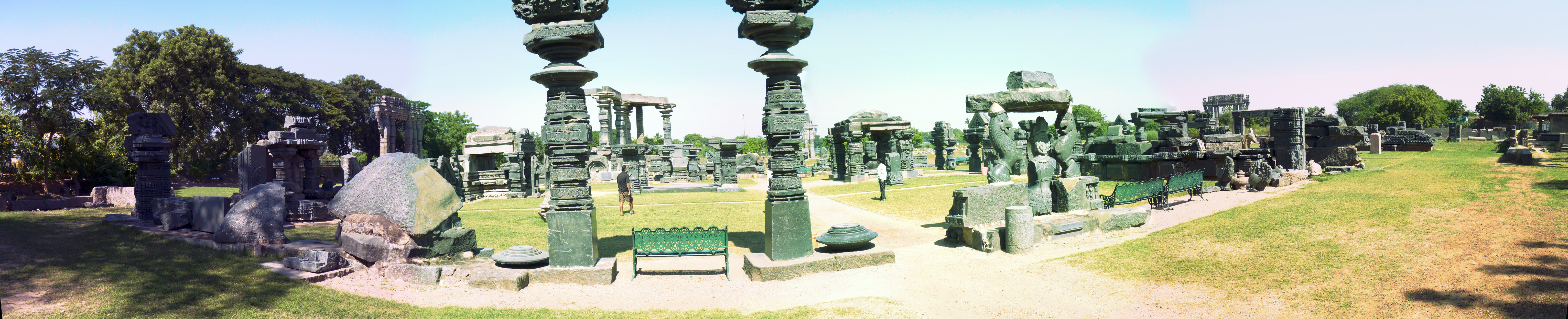 Panoramic view of the kakatiya dynasty fort at Warangal, India.